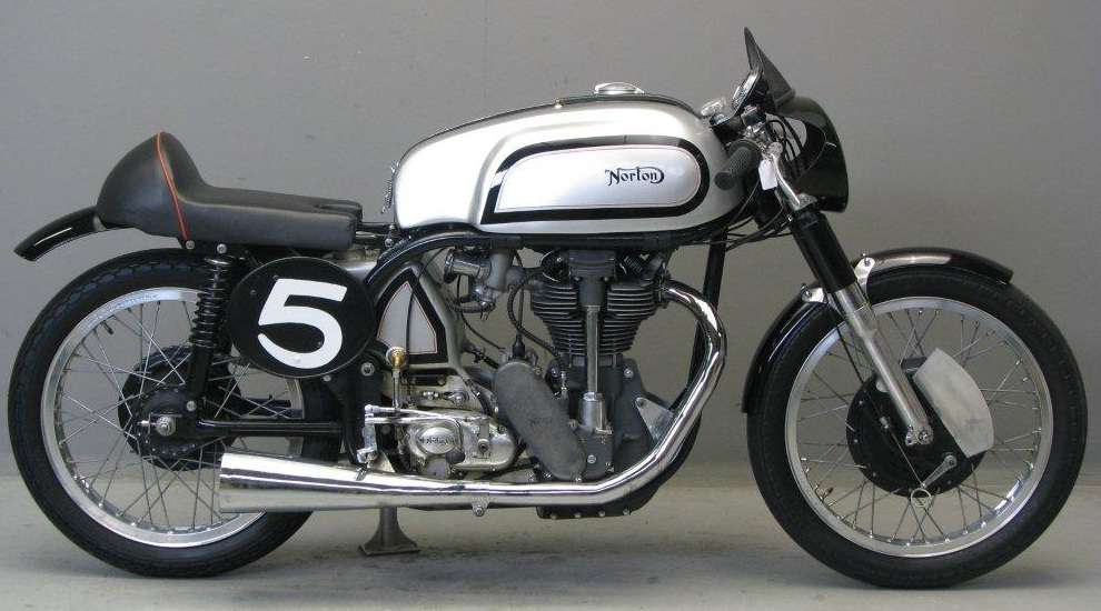 Norton M30 Manx 500cc from 1952